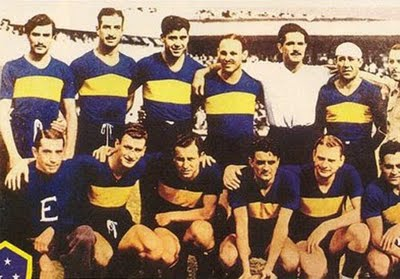 Boca Juniors, 1944 champion. (stand): Sosa, Marante, Lazzatti, Pescia, Vacca, Varela. (seated): Boyé, Corcuera, Sarlanga, Valussi, Sánchez.